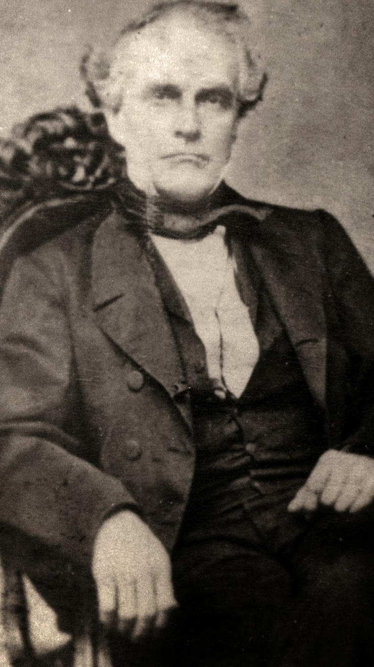 Venezuelan diplomat Manuel Antonio Carreño.